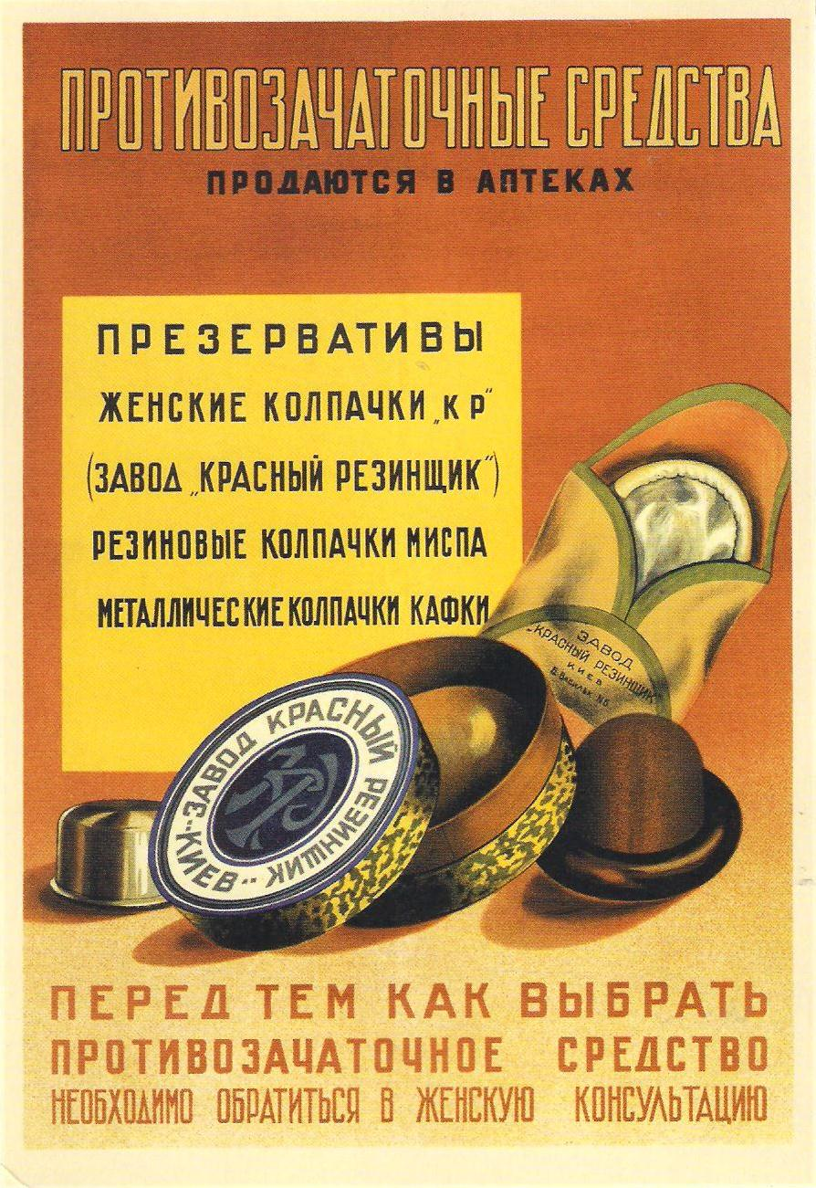 1938 Sovietic poster for female condoms.